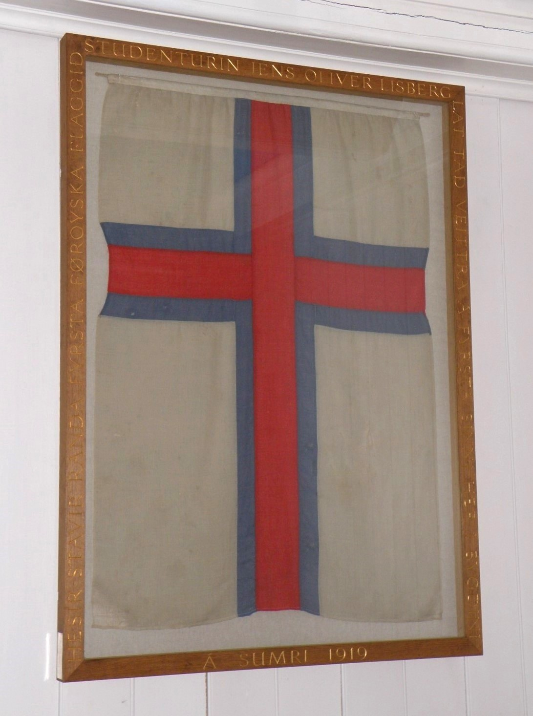 The first Faroese flag, which was made in 1919 by a Faroese student from Fámjin, Jens Oliver Lisberg, along with two other Faroese students, is hanging in the church of Fámjin.